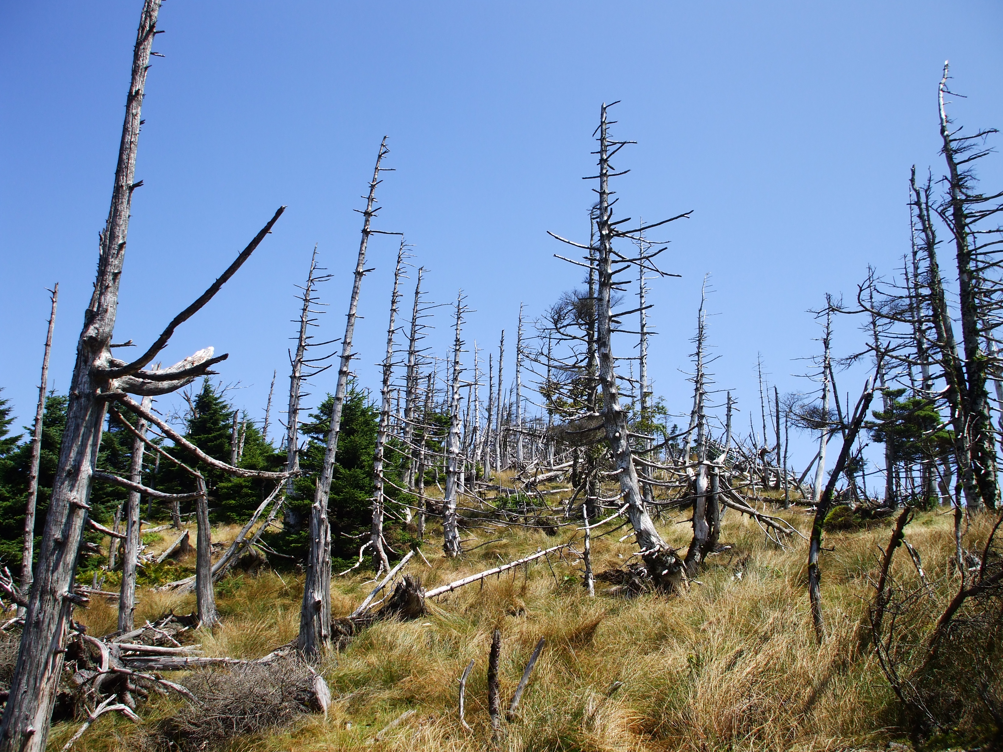 At the top of Mount Hakkyo, of Omine Mountains, Nara, Honshu, Japan.